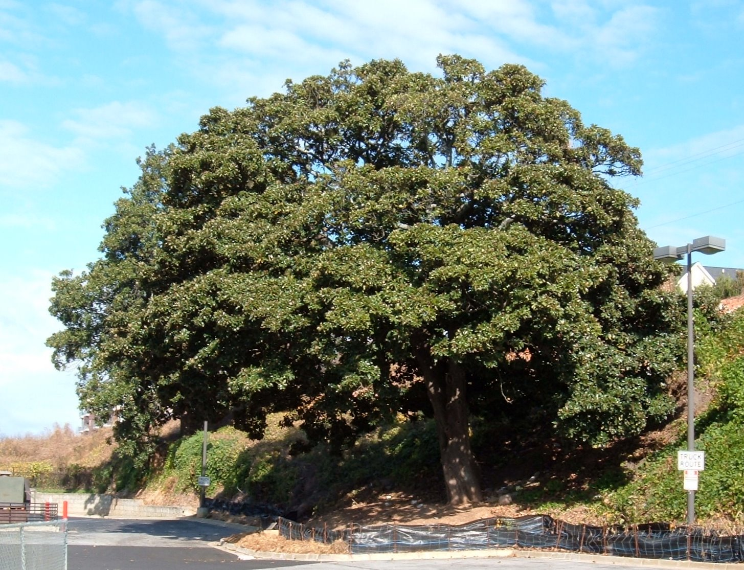 Magnolia tree that was once part of Ponce de Leon Park in Atlanta, GA, USA. There is a plaque at the base of the tree.